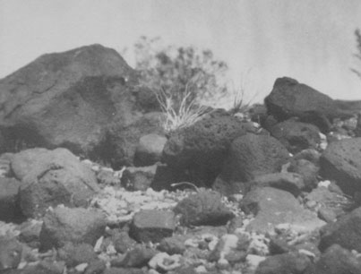 Repeat image of boulders from a silver bromide/gelatin on glass negative. The benefit of eliminating paper texture is evident.